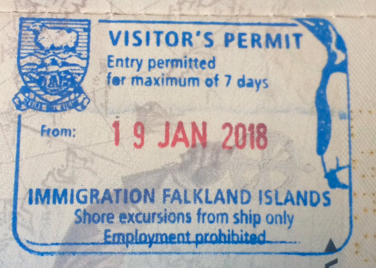 This type of visitors permit is valid for 7 days for shore excursions to the Falkland Islands only.